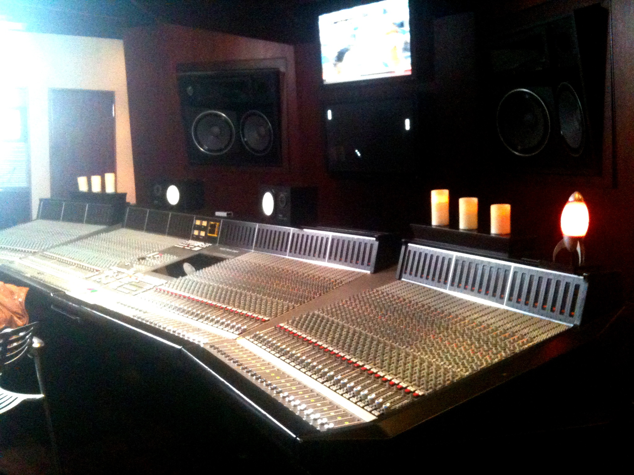 A 72-channel Solid State Logic analog mixing desk at Chalice Studios Hollywood